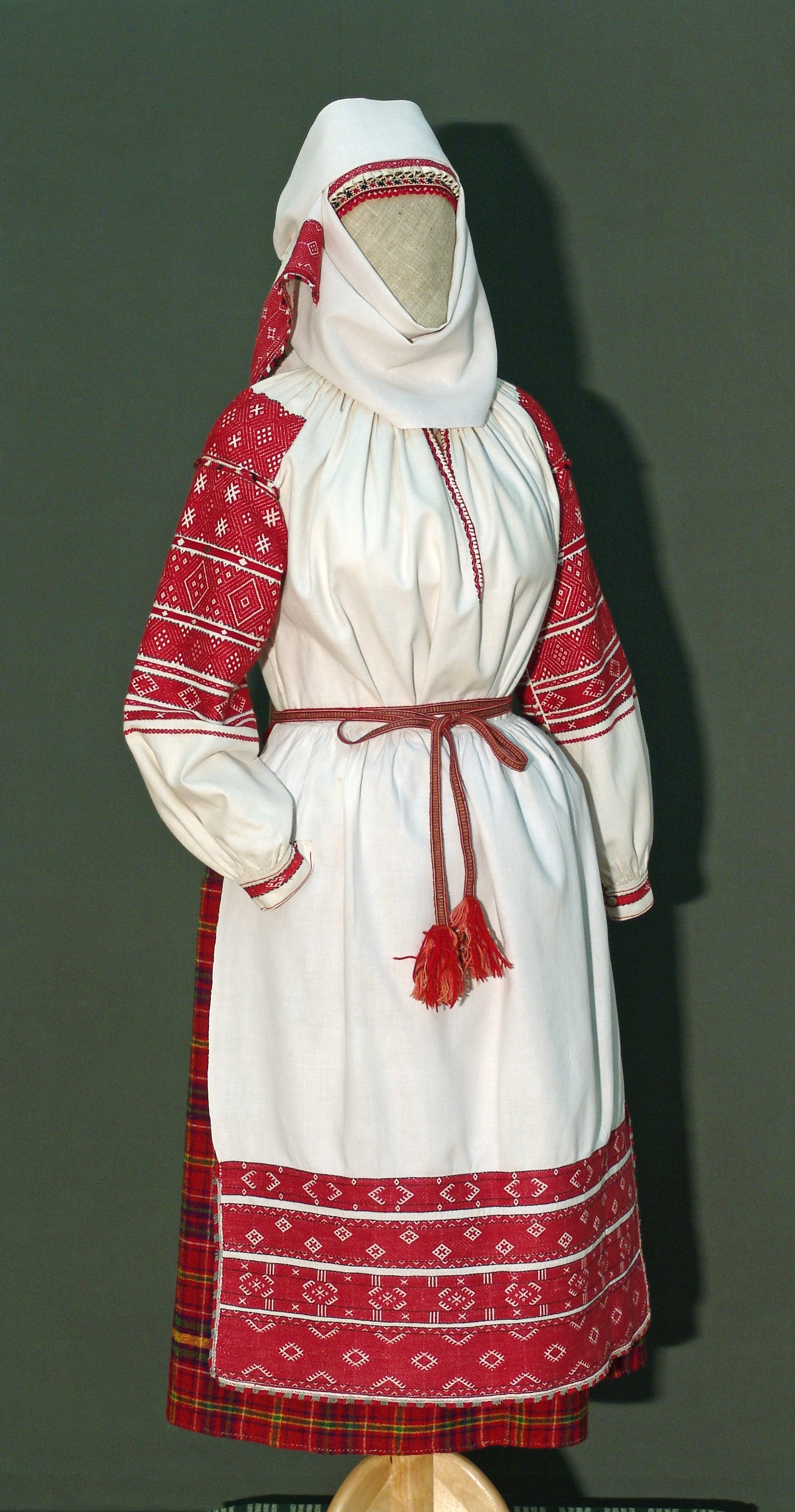 Traditional summer woman clothing of Belarusian peasants (Dražna agro-town, Staryya Darohi District, Belarus), the end of the XIXth century. Location: Museum of Belarusian Folk Art (Minsk city, Belarus)